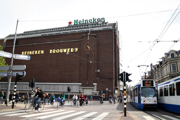 Heineken Experience, Amsterdam.